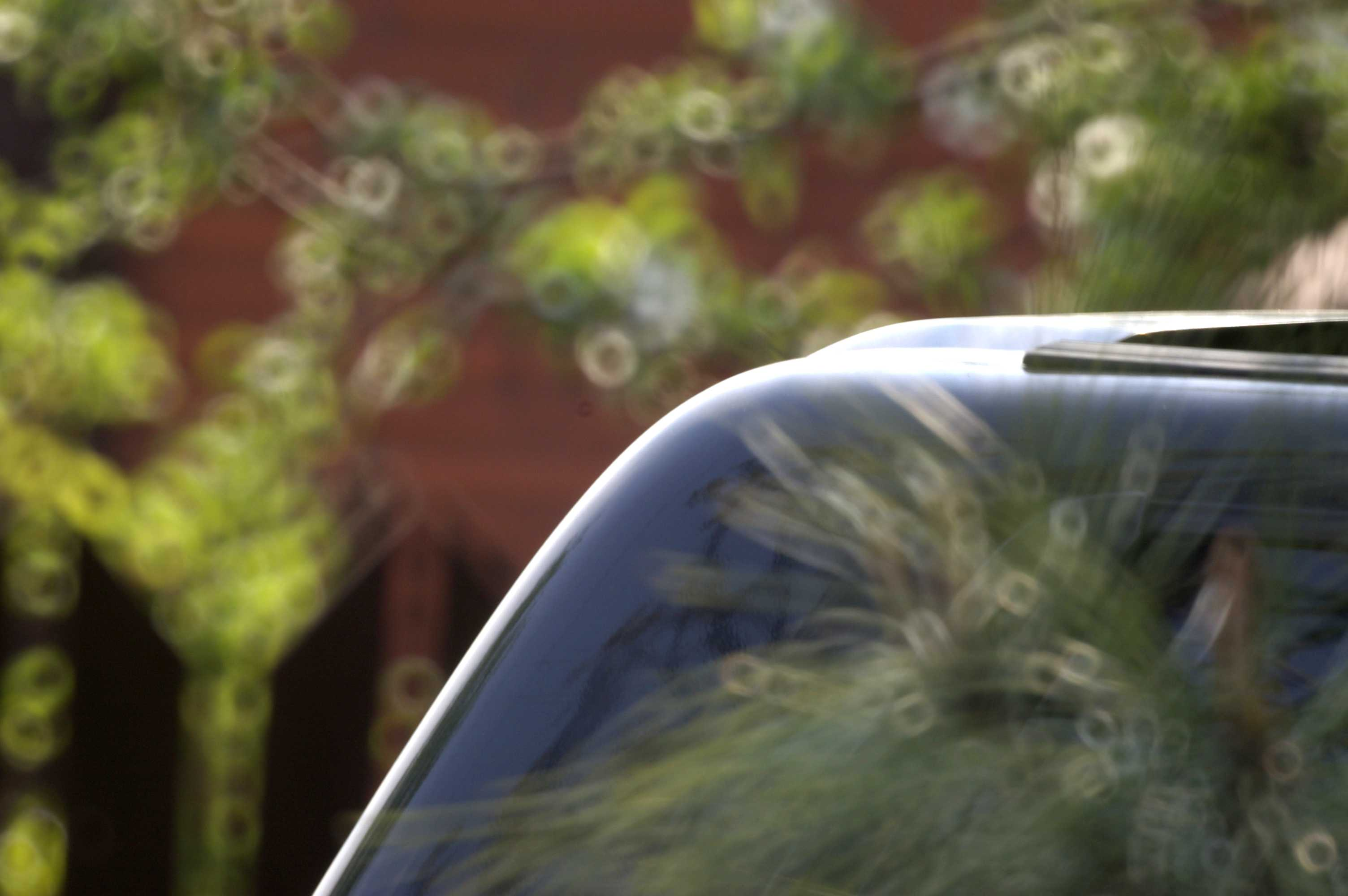 bokeh in front of and beyond the depth of field, catadioptric lens, Pentax *istDS